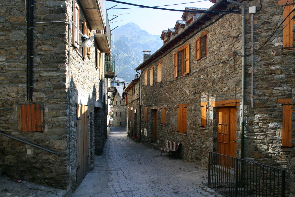 Queralbs.